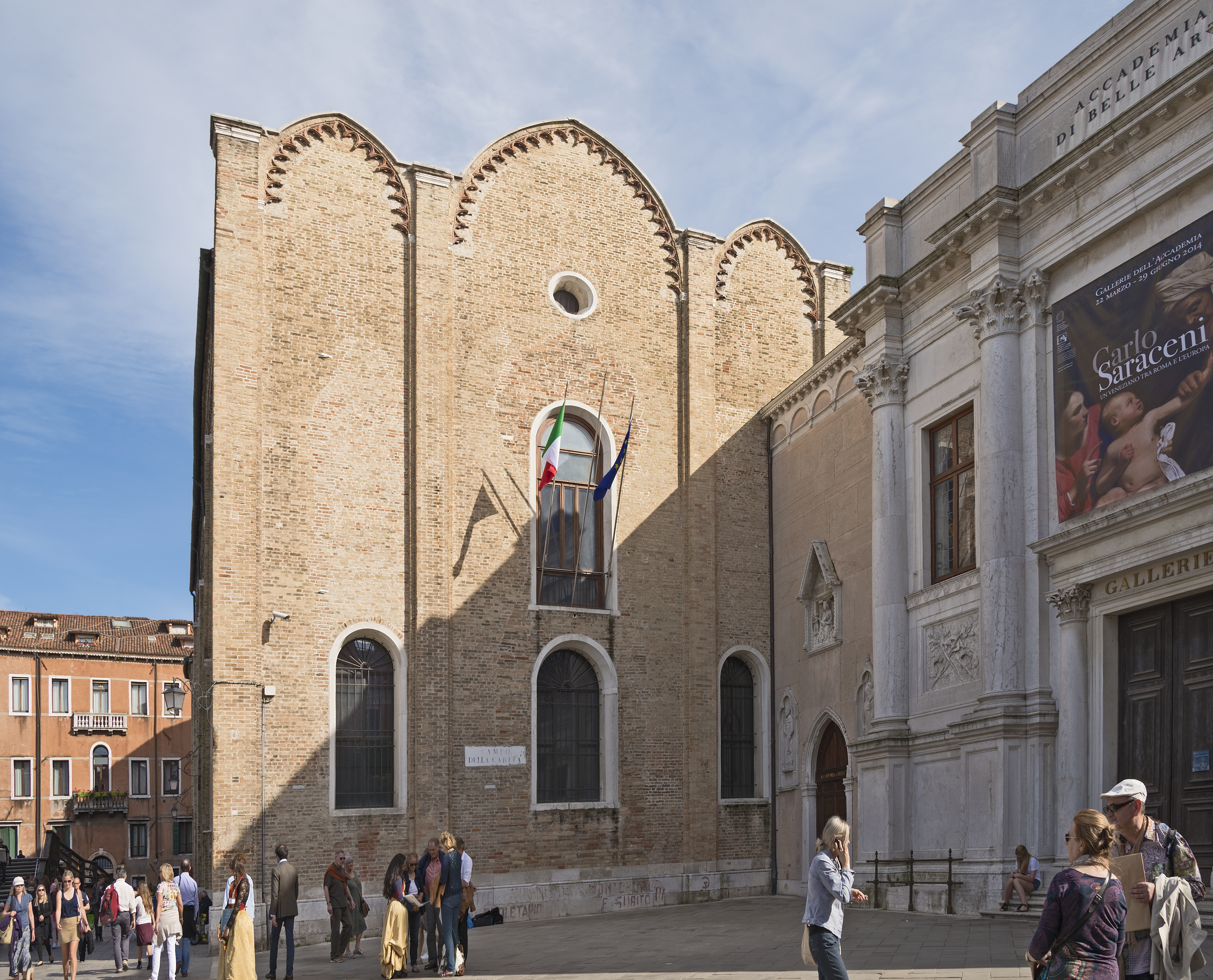 Gothic facade of the former Santa Maria della Carità church — now a building of the Gallerie dell'Accademia, in Dorsoduro, Venice.